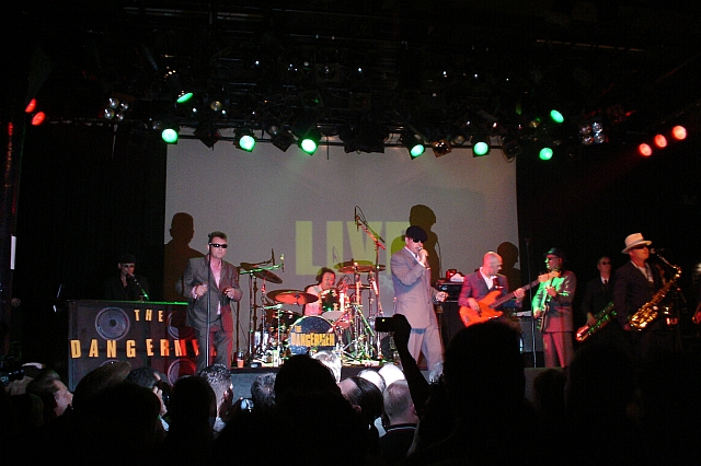 Madness performing live at the Melkweg venue, Amsterdam, 19-07-2005